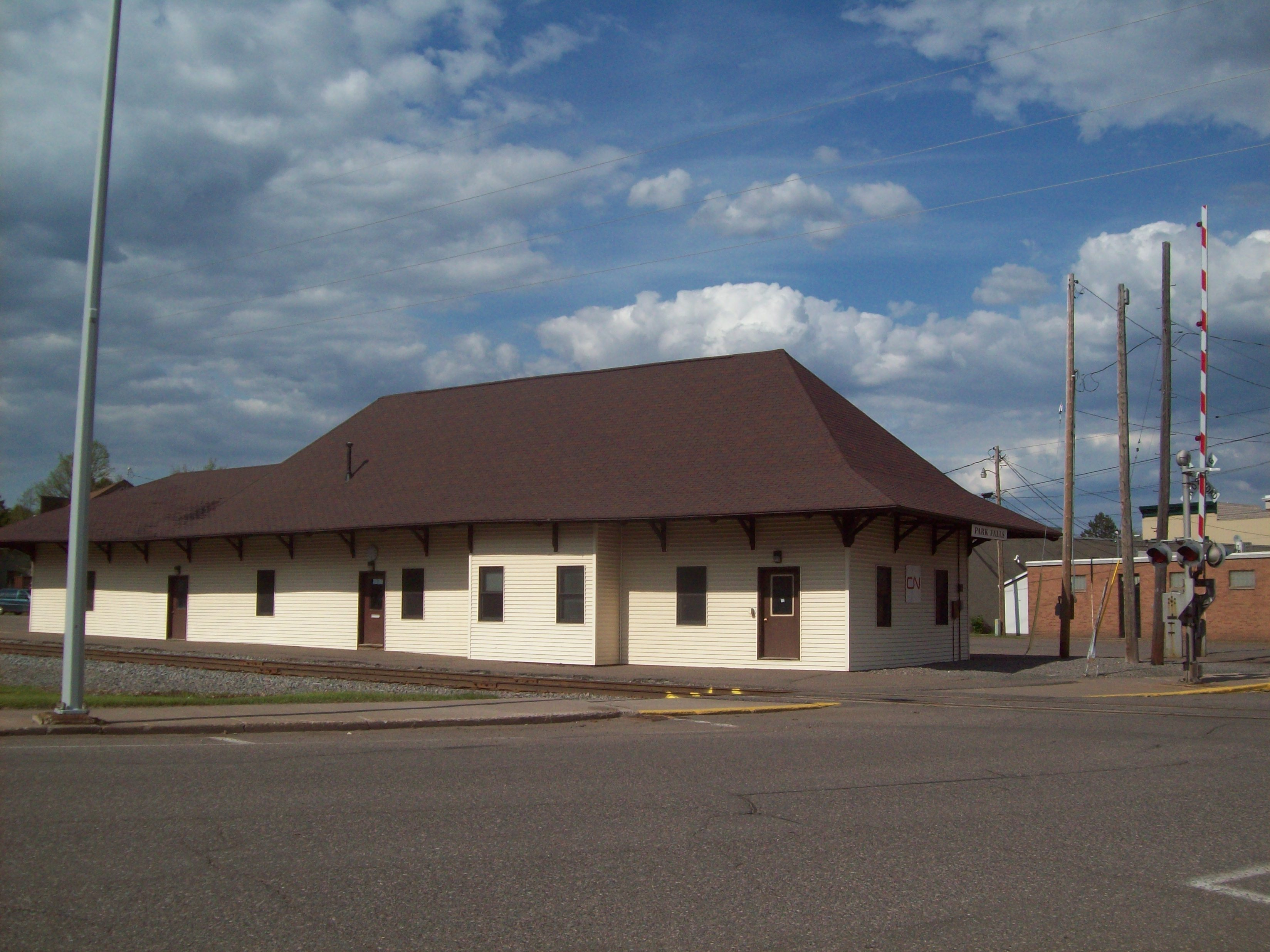 Canadian National station, Park Falls